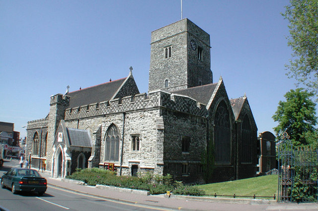 Holy Trinity, Dartford, Kent